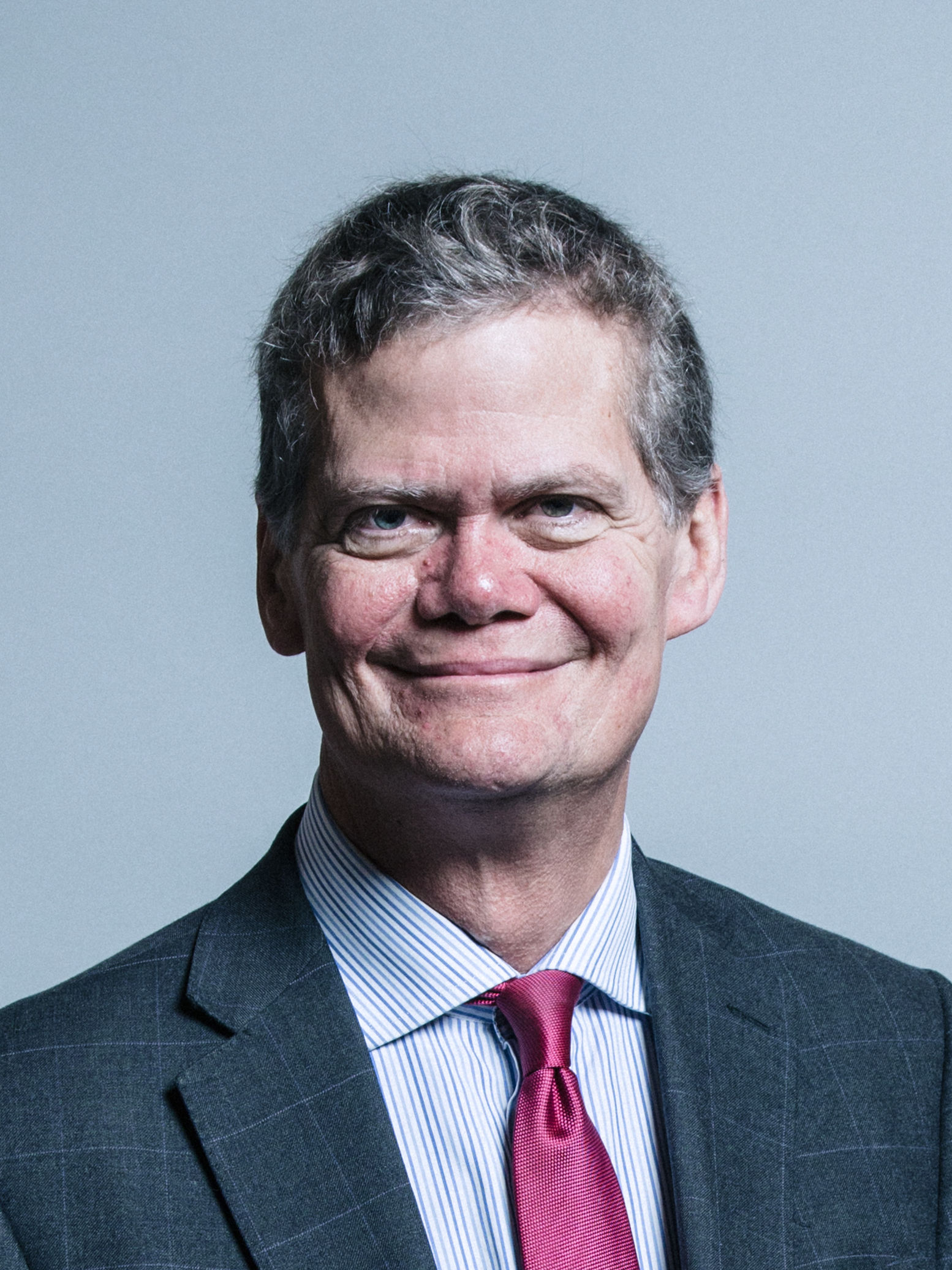 Official portrait of Stephen Lloyd